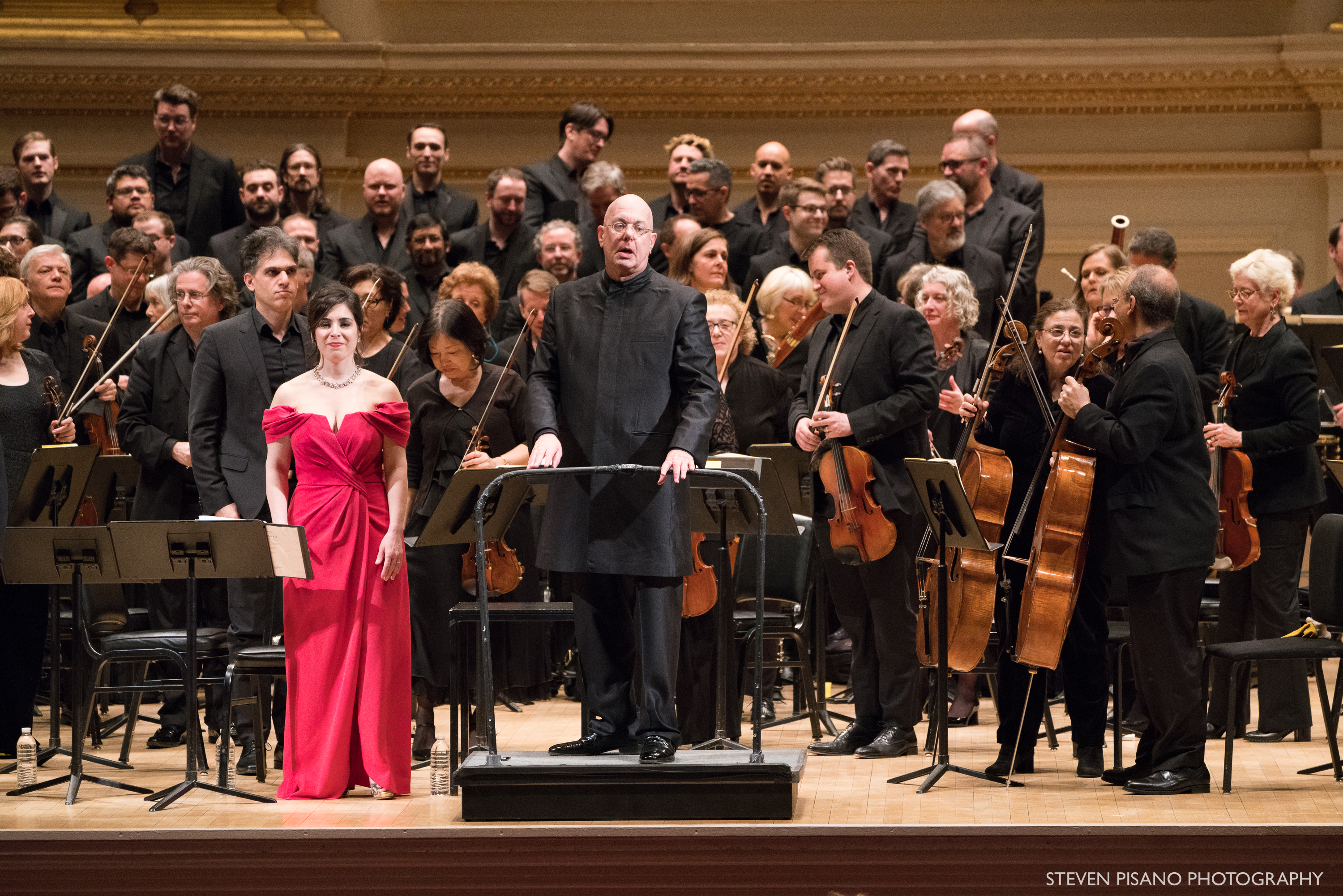 March 1, 2018 Stern Auditorium Carnegie Hall New York, NY American Symphony Orchestra conducted by Leon Botstein, with the Bard Festival Chorale under the direction of James Bagwell Photo by Steven Pisano